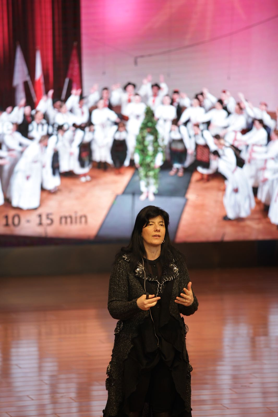 Lecturing in China